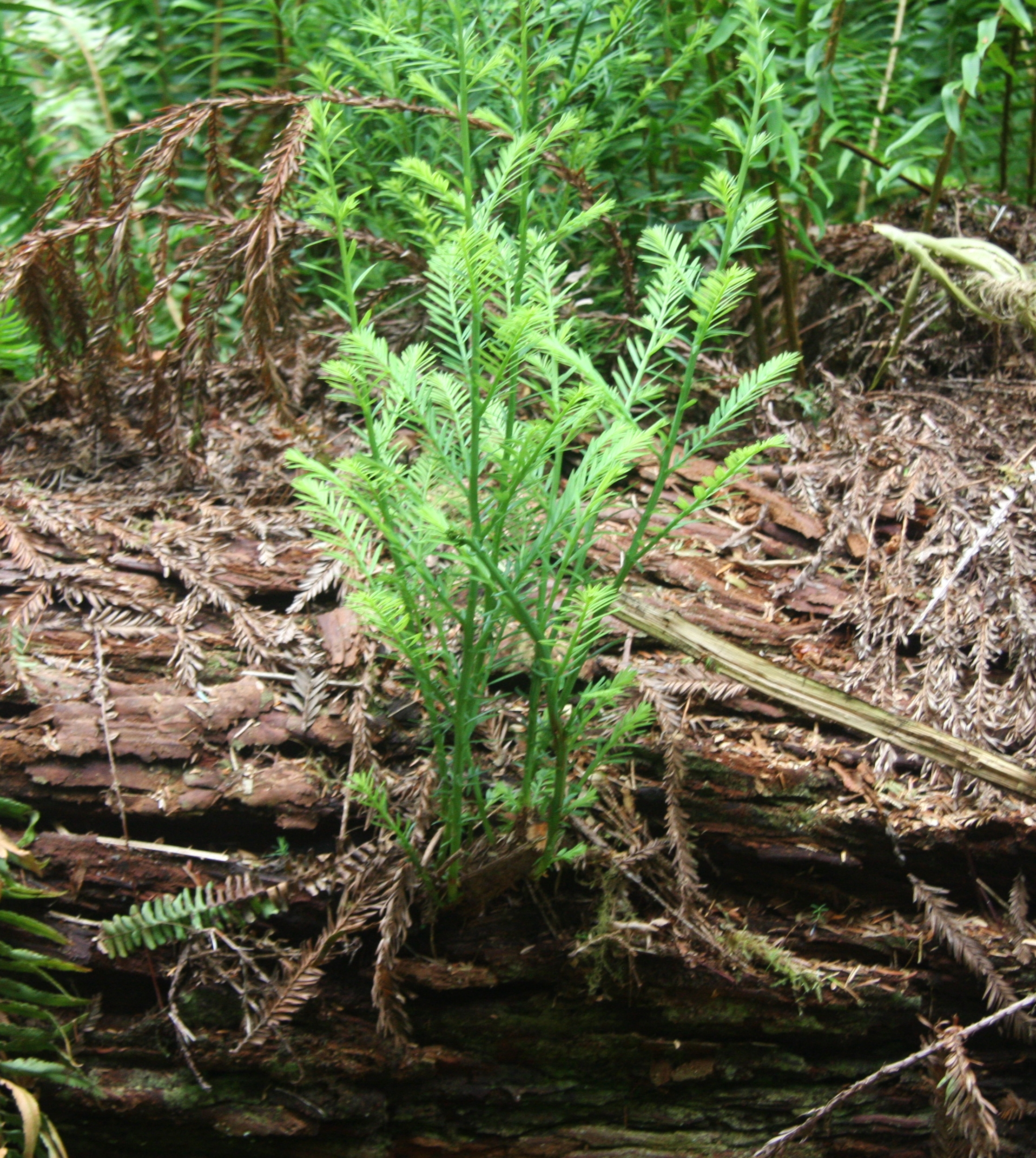 Sequoia sprouts from sleeping buds